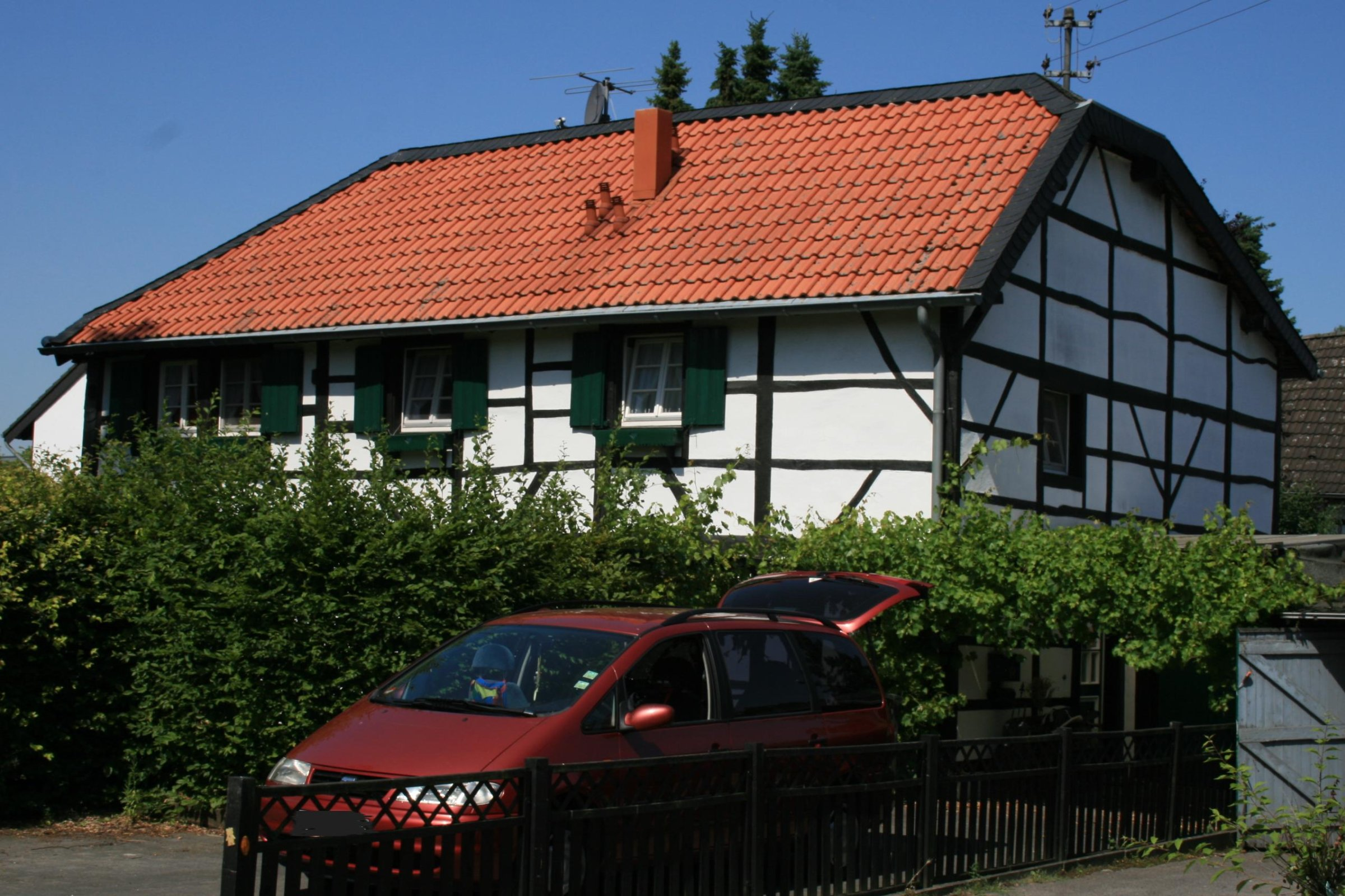 Cultural heritage monument No. W 032 in Mönchengladbach